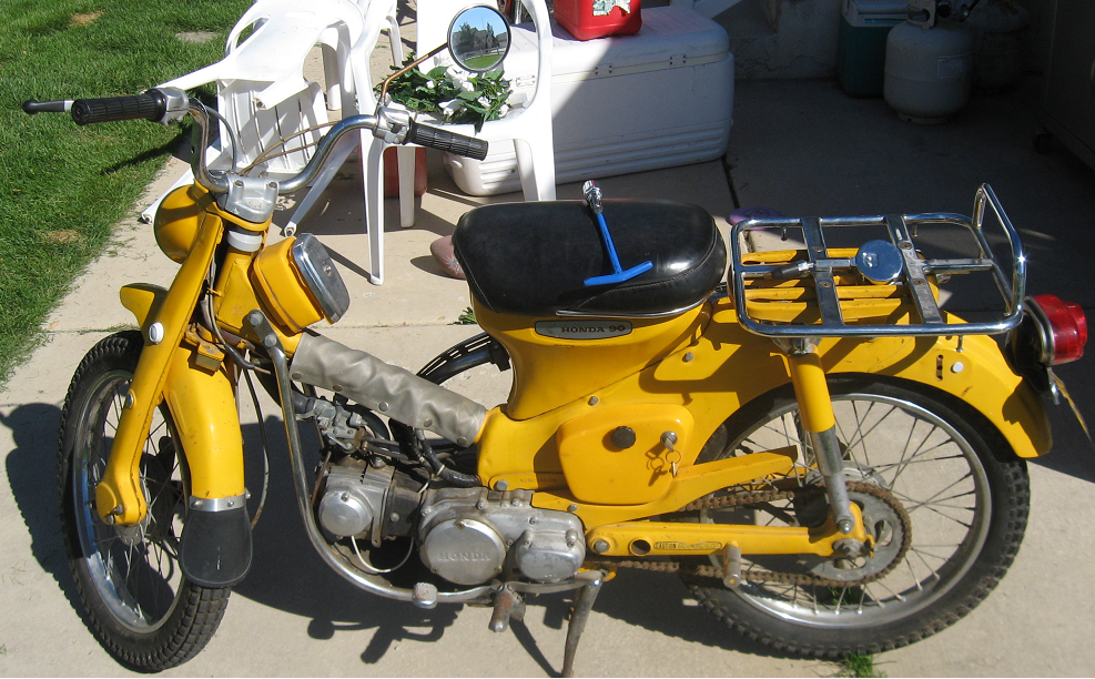 This is a yellow 1968 Honda ct90. You can tell the difference between by the rear sprocket is not the dual style.